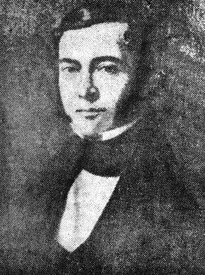 Manuel María de Llano, early-mid 19th century portrait. He died more than 145 years ago. Therefore this portrait is PD. This image (or other media file) is in the public domain because its copyright has expired. This applies to Australia, the European Union and those countries with a copyright term of life of the author plus 70 years. You must also include a United States public domain tag to indicate why this work is in the public domain in the United States. Note that a few countries have copyright terms longer than 70 years: Mexico has 100 years, Colombia has 80 years, and Guatemala and Samoa have 75 years, Russia has 74 years for some authors. This image may not be in the public domain in these countries, which moreover do not implement the rule of the shorter term. Côte d'Ivoire has a general copyright term of 99 years and Honduras has 75 years, but they do implement the rule of the shorter term. This file has been identified as being free of known restrictions under copyright law, including all related and neighboring rights. )